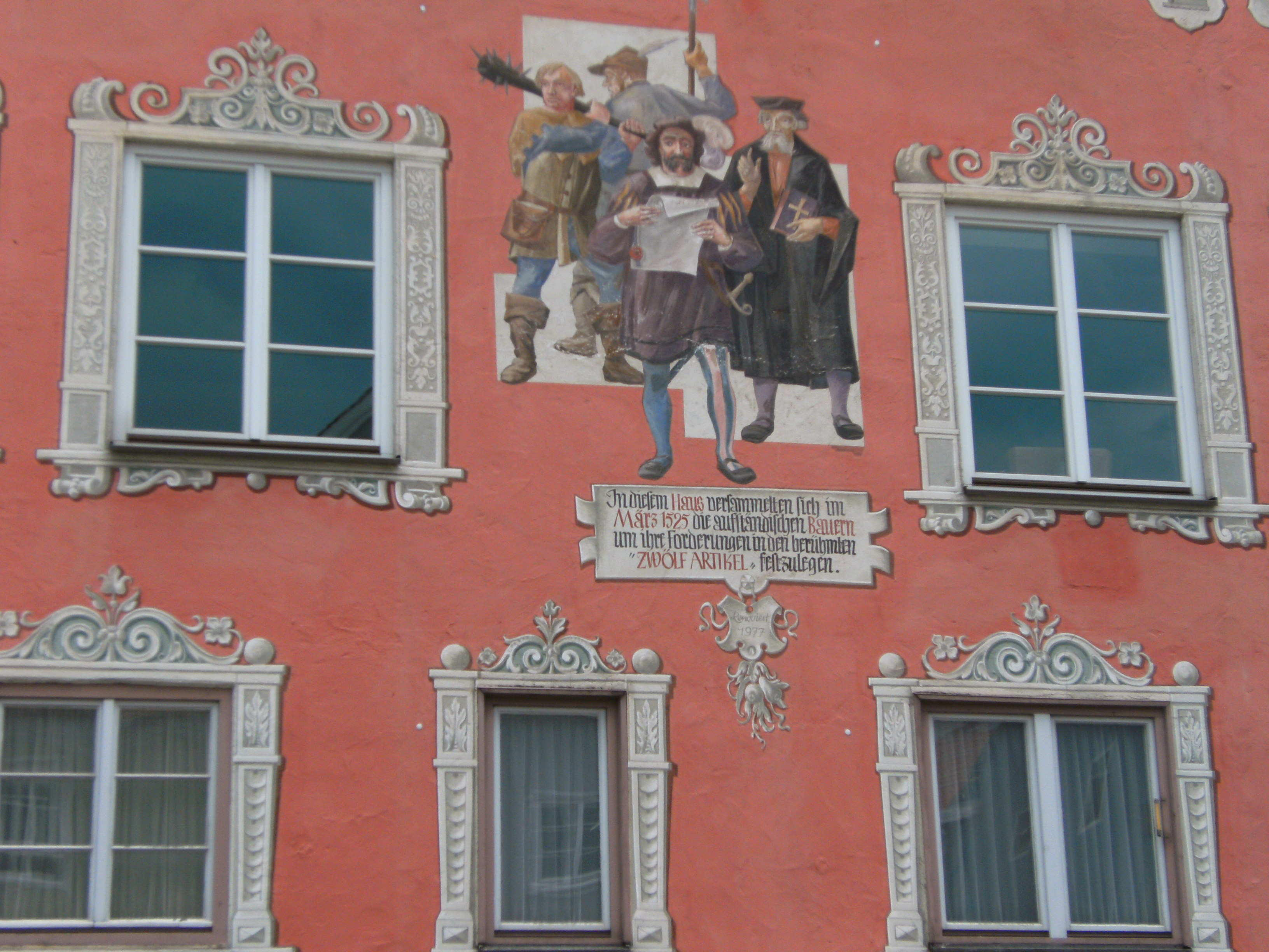 Facade of building Kramerzunft at Weinmarkt in Memmingen, Germany. Image: Proclamation of 12 human rights articles of peasants' war.